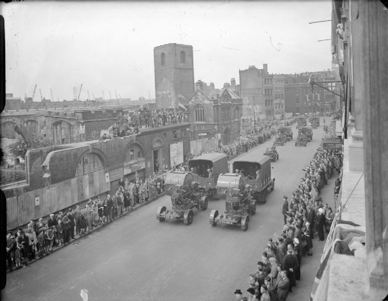 Royal Artillery searchlight lorries make their way towards the Saluting Base in the Mall, as part of the Victory Parade in London.